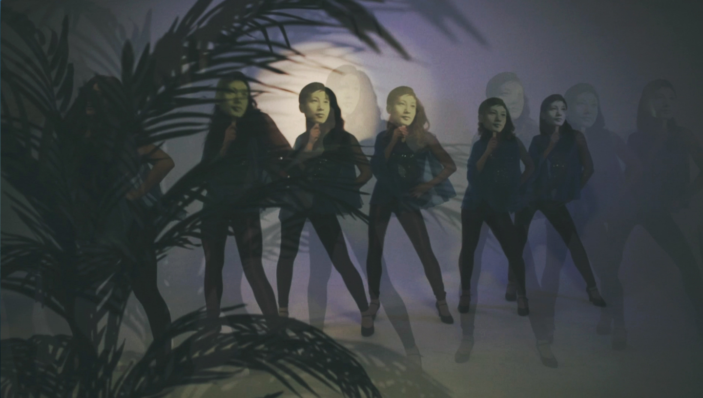 Video still of video " Nation Family" by Dinu Li, 2017. Single channel video installation with sound, 14 minutes and 16 seconds (looped).